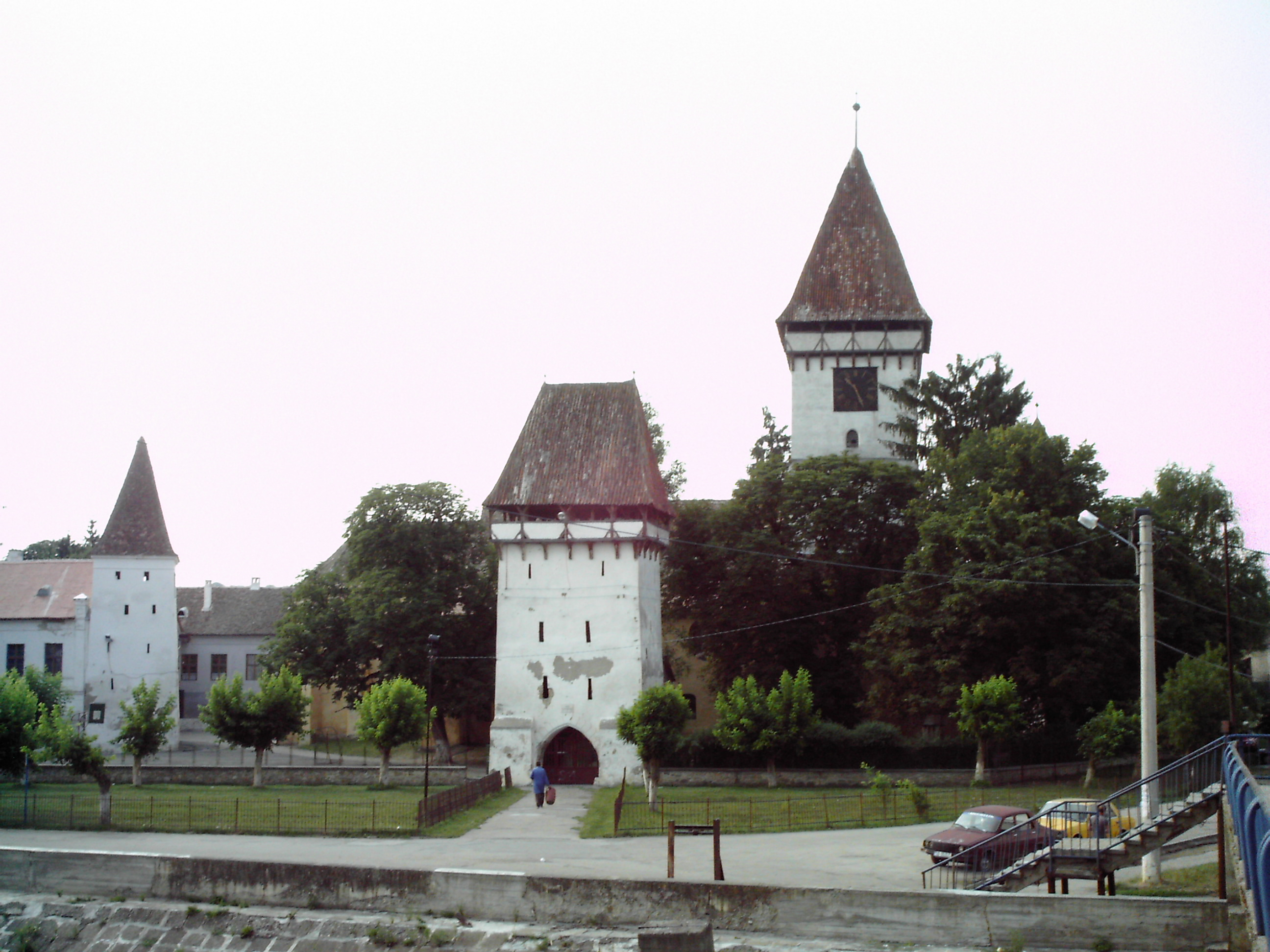 Saxon Citadel in Agnita -fortified church and four towers; most of the curtain wall does not survive; the tower on the left of the image (origianly part of the fortress was incorporated in the school building.